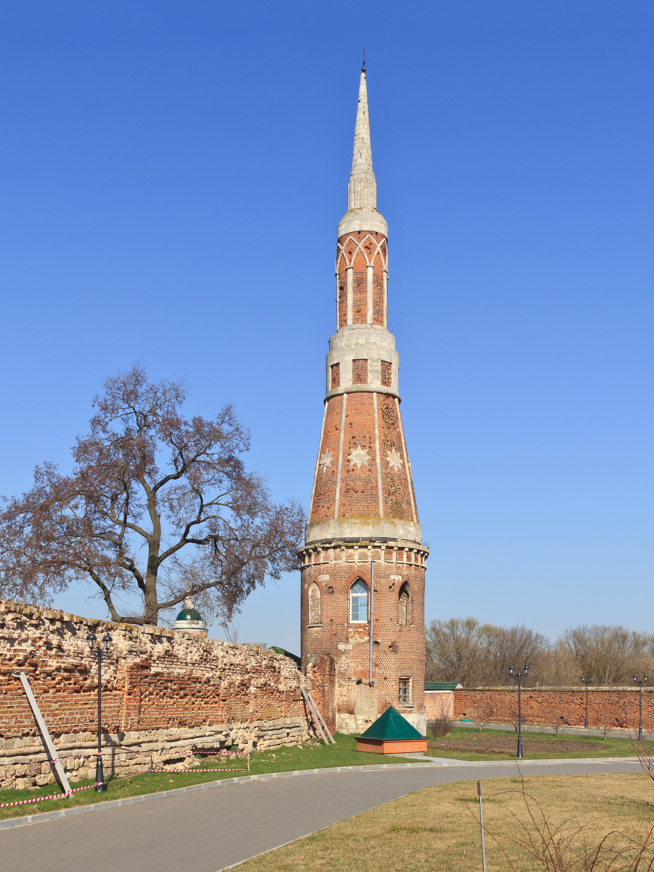 A tower of Staro-Golutvin Monastery in Kolomna, Moscow Oblast, Russia.